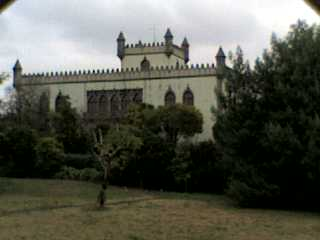 Portuzelo Castle, Santa Marta de Portuzelo, Portugal